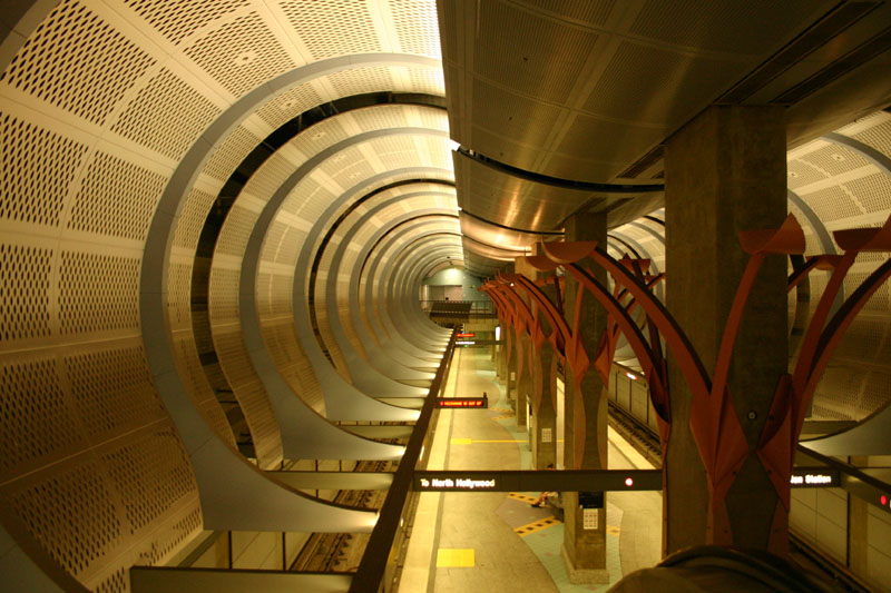 Hollywood/Highland